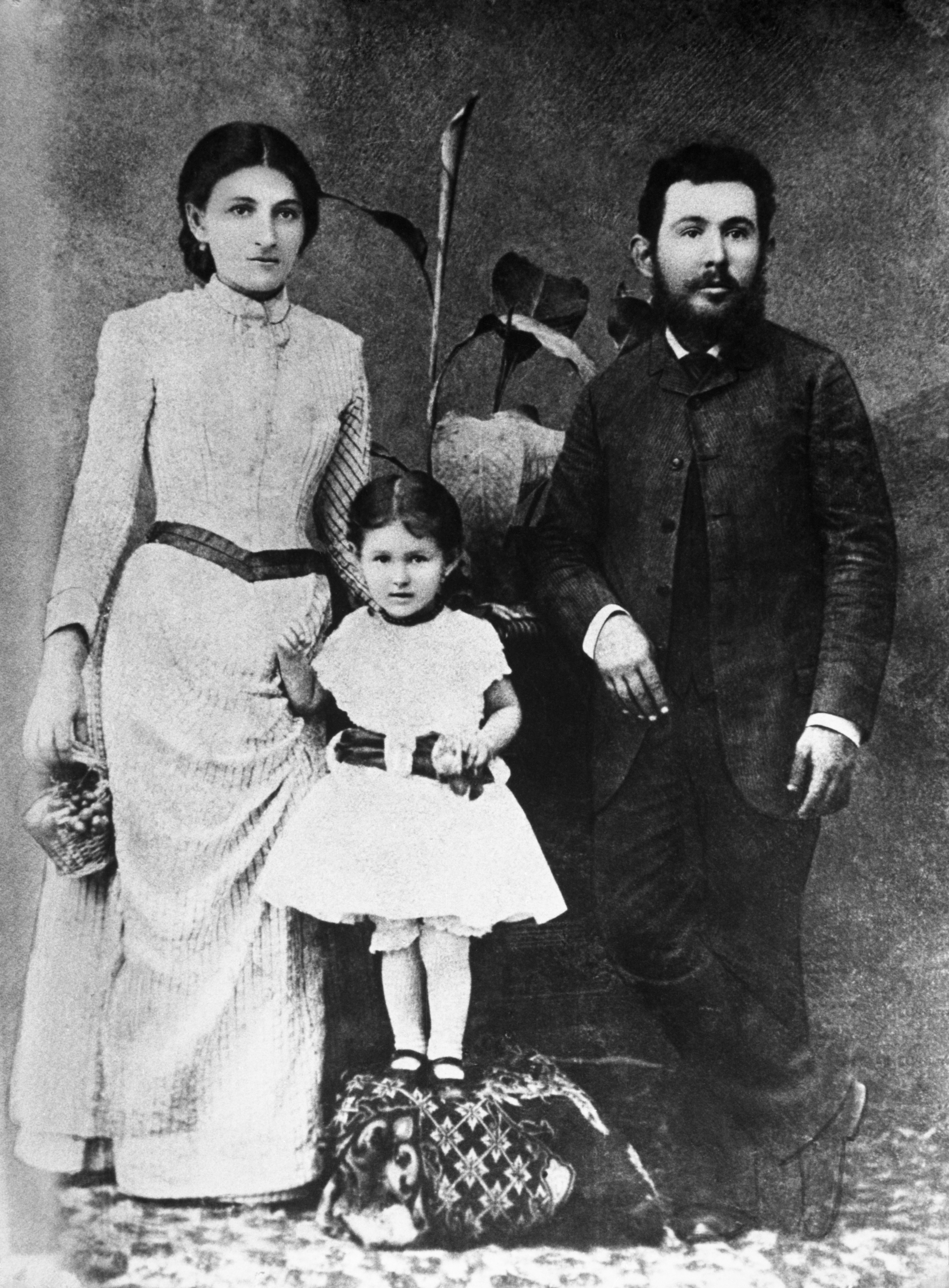 Tamar Feler (1888–1937) With her parents Mintza and Benjamin Fuchs